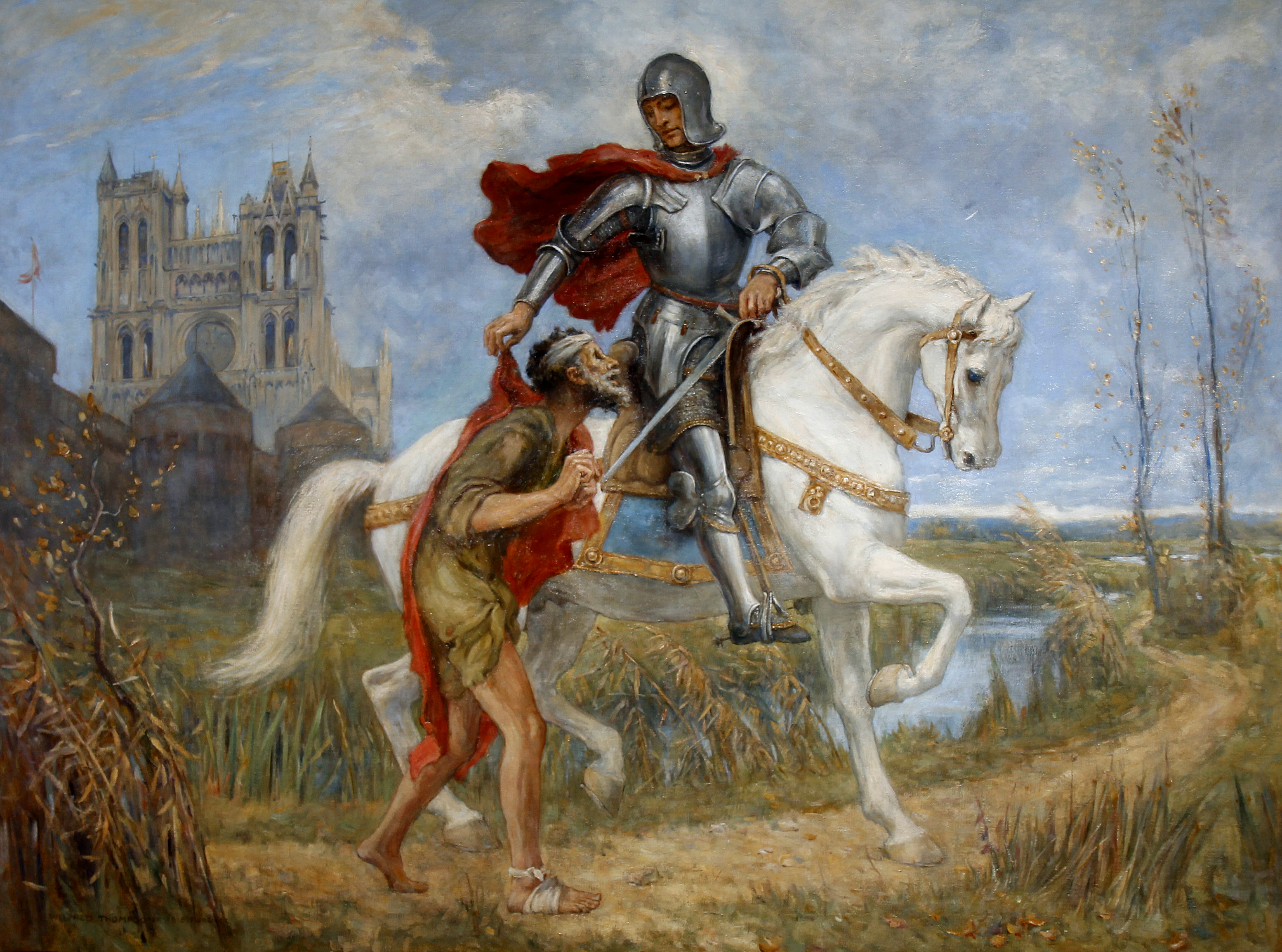 Saint Martin And The Beggar. Signed, dated and inscribed Wilfred Thompson 1918, Florence. Oil on canvas, 91 x 122.5 cm